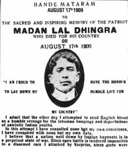 Paris Bande Mataram 17 August 1909